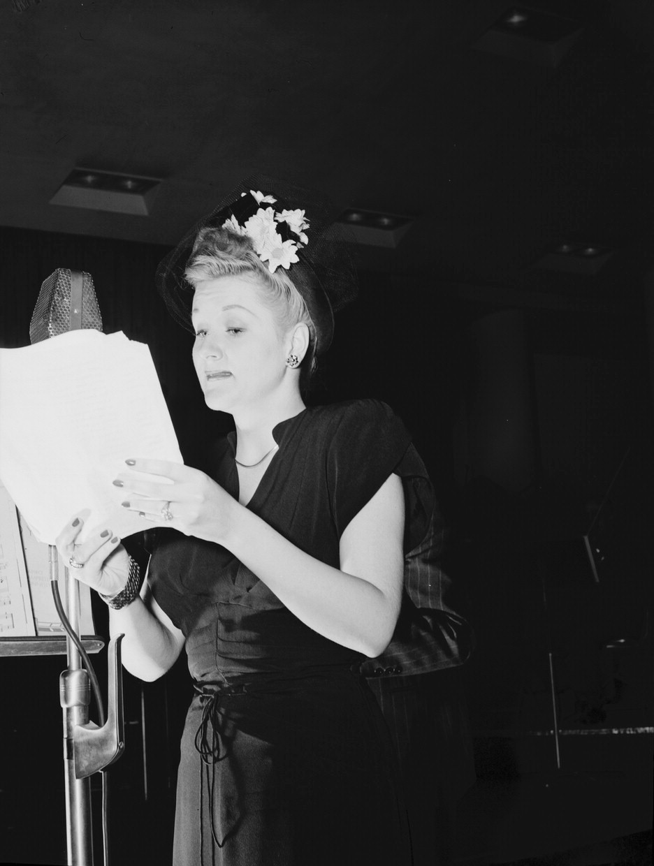 Margaret Whiting (born July 22, 1924, Detroit, Michigan) is a singer of American popular music and country music who first made her reputation during the 1940s and 1950s. Gottlieb, William P., 1917-, photographer. [Portrait of Margaret Whiting, New York, N.Y., between 1946 and 1948] 1 negative : b&w ; 3 1/4 x 4 1/4 in. Notes: Gottlieb Collection Assignment No. 110 Reference print available in Music Division, Library of Congress. Purchase William P. Gottlieb Forms part of: William P. Gottlieb Collection (Library of Congress). Subjects: Whiting, Margaret Women jazz musicians--1940-1950. Jazz singers--1940-1950. Format: Portrait photographs--1940-1950. Film negatives--1940-1950. Rights Info: Mr. Gottlieb has dedicated these works to the public domain, but rights of privacy and publicity may apply. Repository: (negative) Library of Congress, Prints & Photographs Division, Washington D.C. 20540 USA, (reference print) Library of Congress, Music Division, Washington D.C. 20540 USA, Part Of: William P. Gottlieb Collection (DLC) 99-401005 General information about the Gottlieb Collection is available at Call Number: LC-GLB13- 0914 The Library of Congress This image is available from the United States Library of Congress's Music Division under the digital ID gottlieb.09141.This tag does not indicate the copyright status of the attached work. A normal copyright tag is still required. See Commons:Licensing for more information.